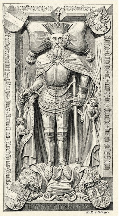 Ernest, Duke of Austria